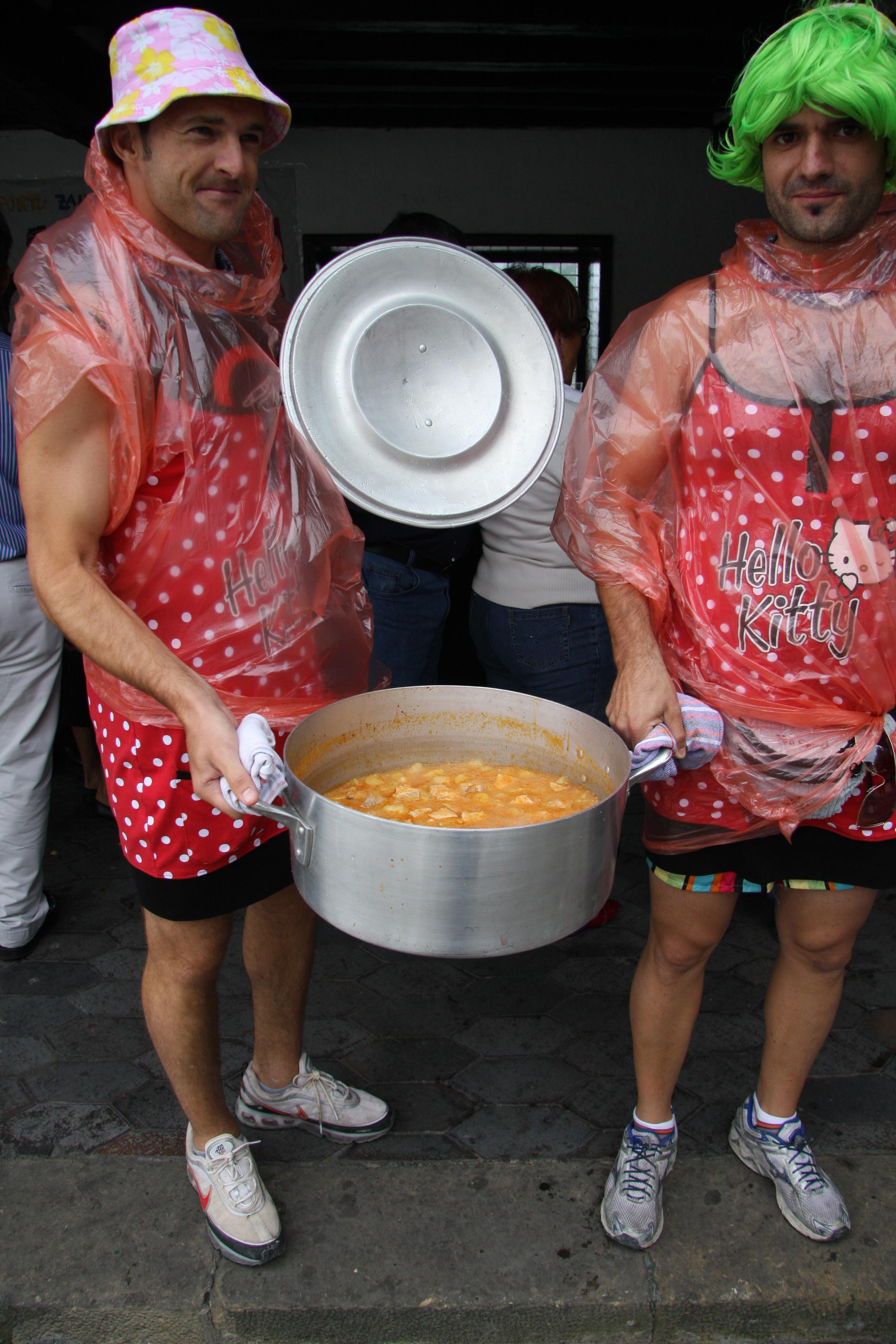 Marmitako festival in Algorta, Biscay.